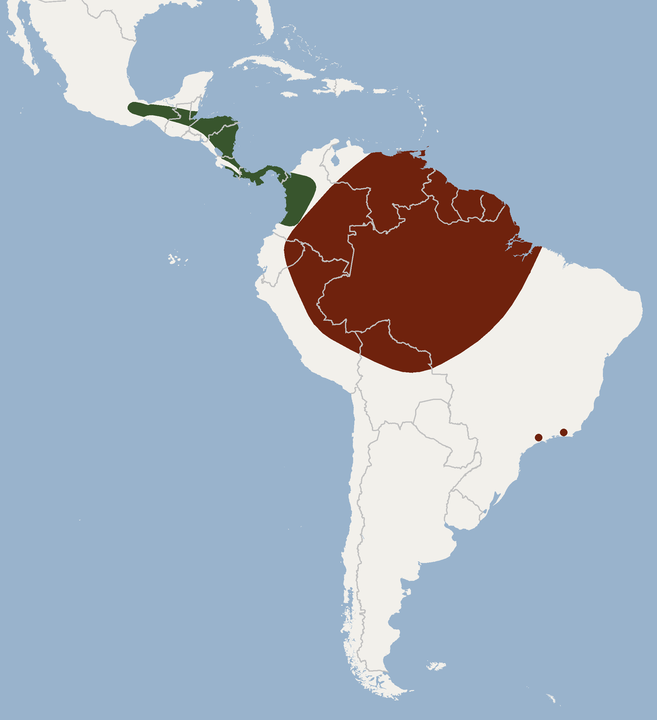 According to Velazco & Simmons, 2011. Subspecies range: V.c.caraccioloi in brown, V.c.major in green.